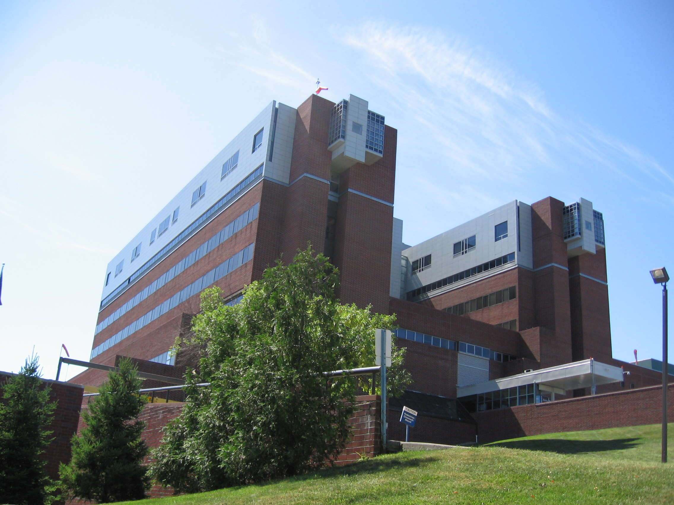 Norwalk Hospital in Norwalk, Connecticut sits atop a hill with a view of much of the city. This view looks toward the southwest on Maple Street